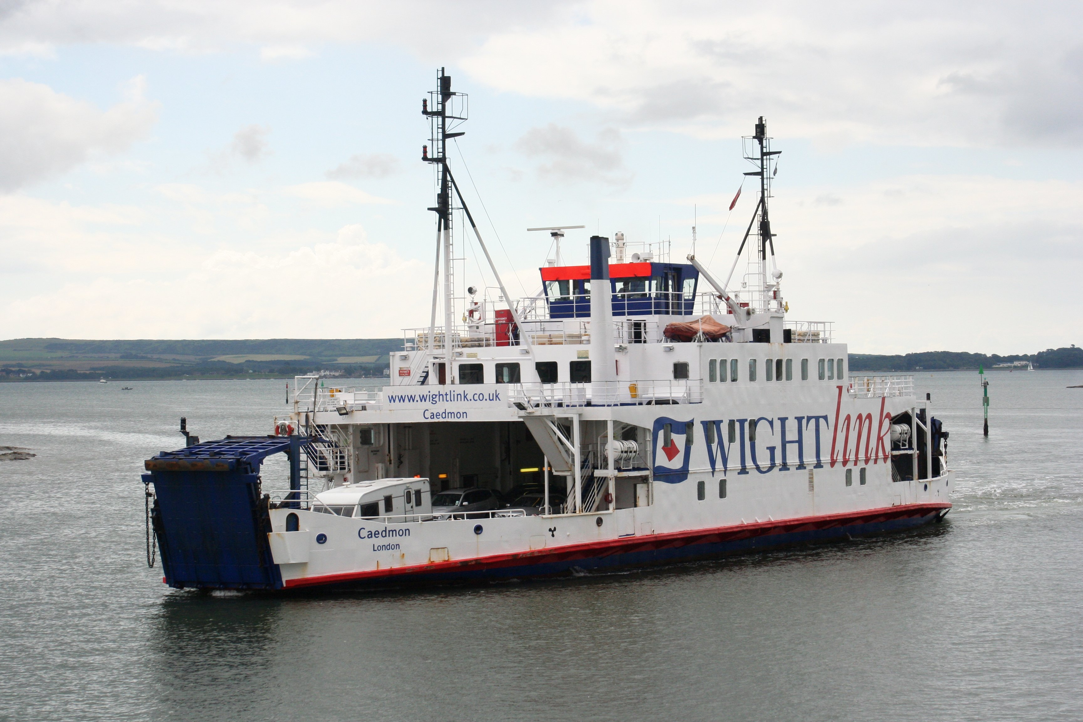 The Wightlink ferry Caedmon, operating between Lymington and Yarmouth, Isle of Wight. IMO number: 7314888